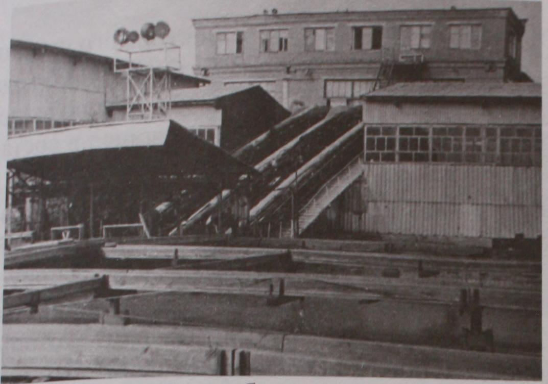 Сарапульский лесозавод, лесопильный цех